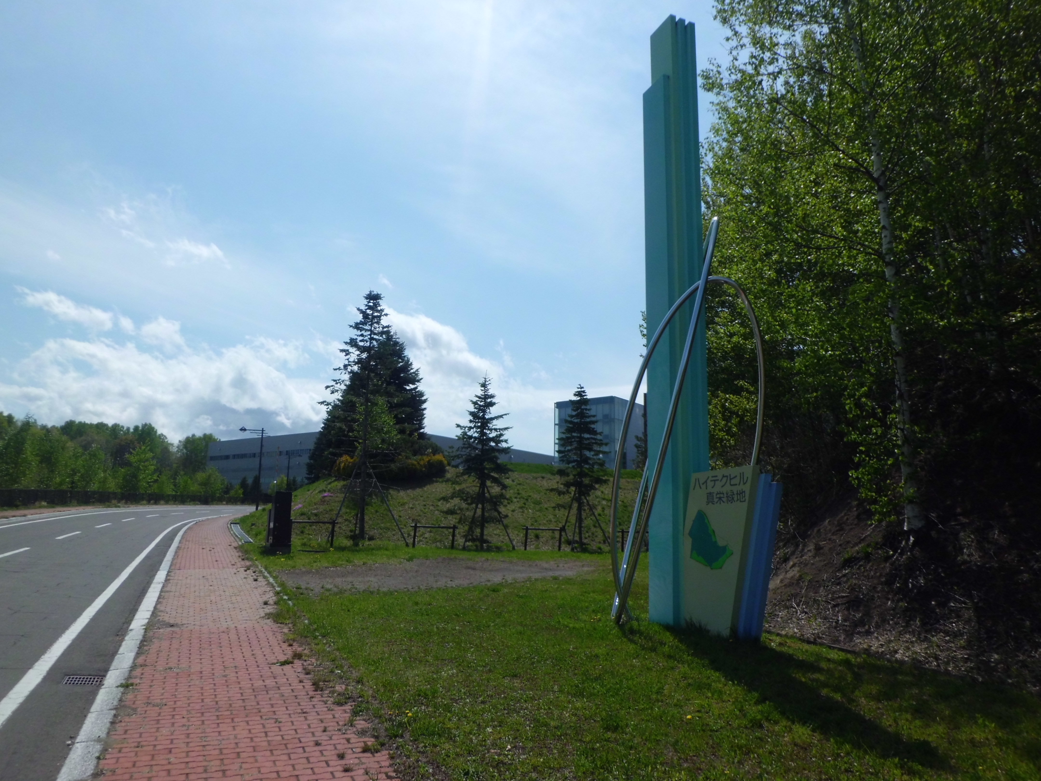 High-tech Hill Shin'ei Green Space